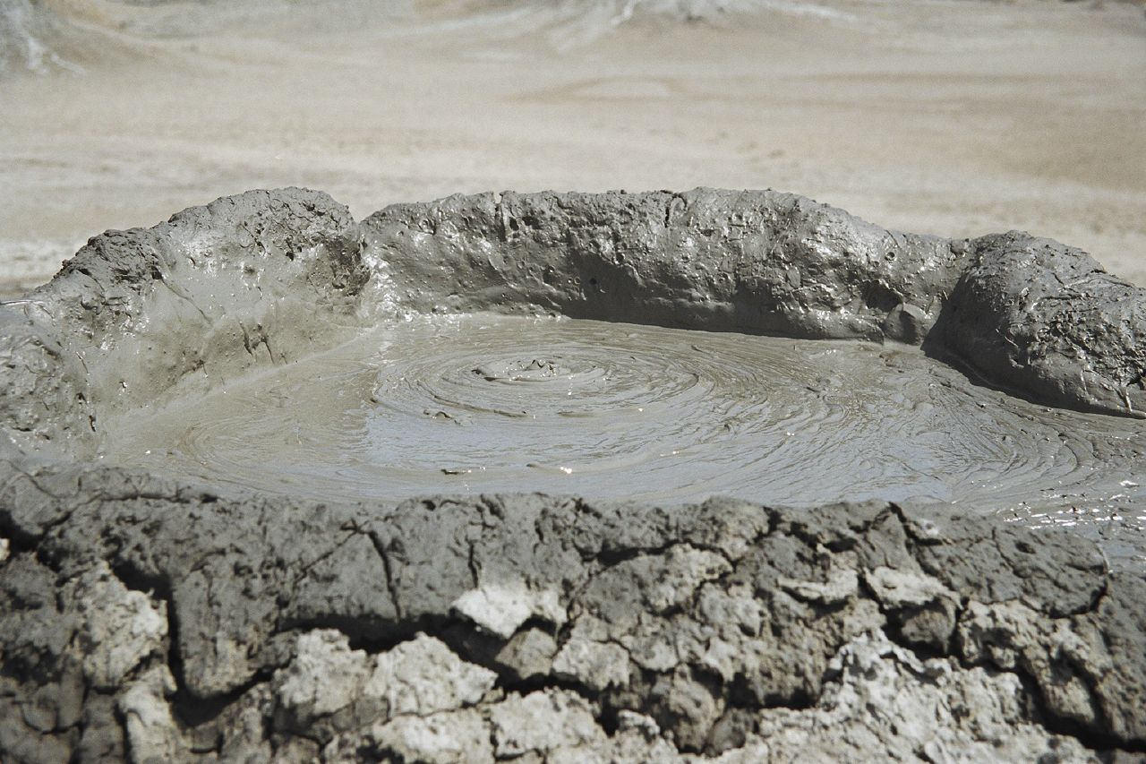 The mud volcanoes of Azerbaijan are one of the strangest things I have seen. The oil under the surface reacts with the soil and reaches the surface in the form of cold grey bubbling mud that ends up forming a small volcano. The mud is safe to touch as it is cold and meant to be good for the skin. However, when the pressure builds up, those volcanoes can erupt, sometimes quite violently.